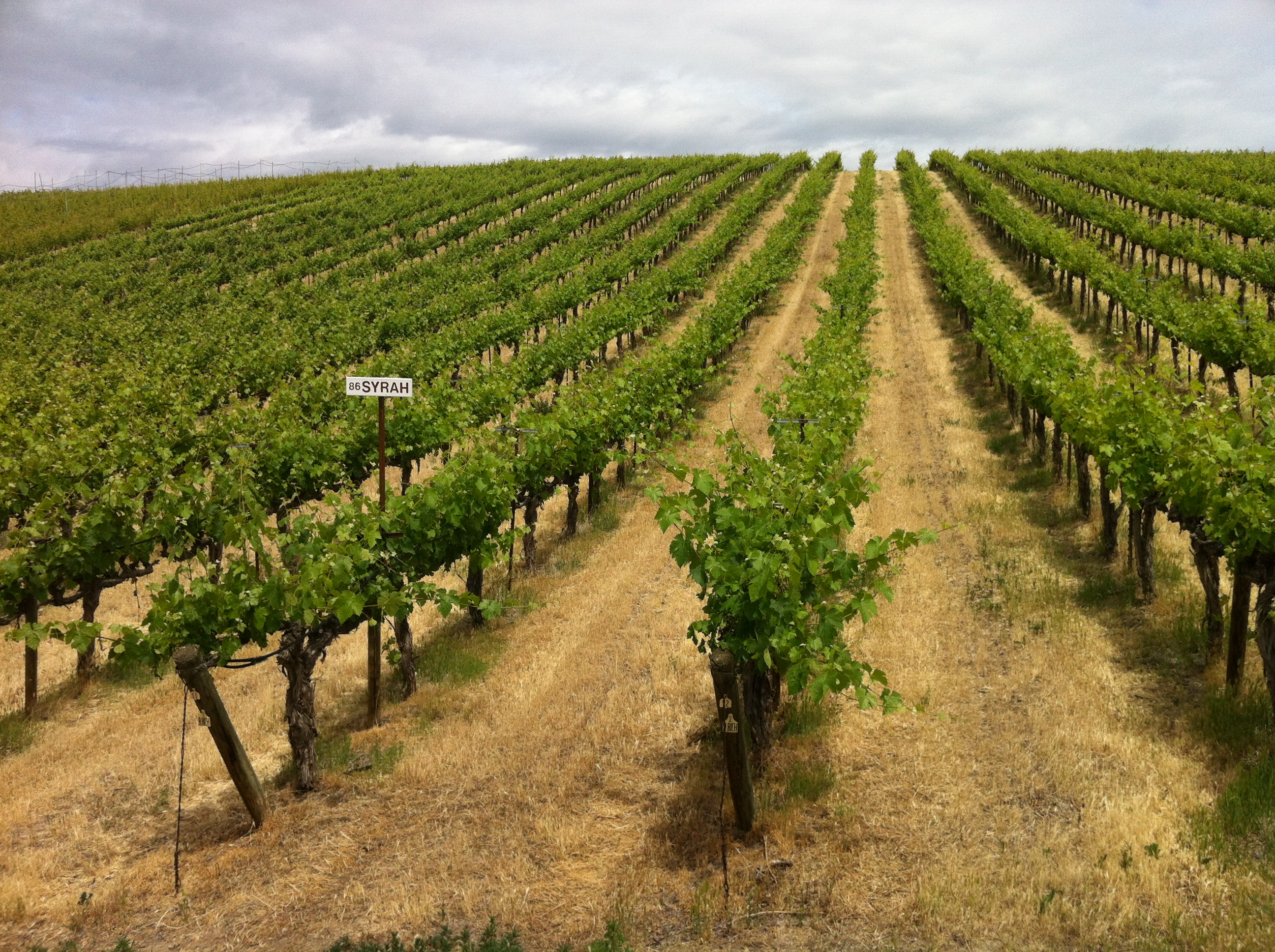 The first planting of Syrah in Washington state at Red Willow Vineyard in the Washington wine region of the Yakima Valley.